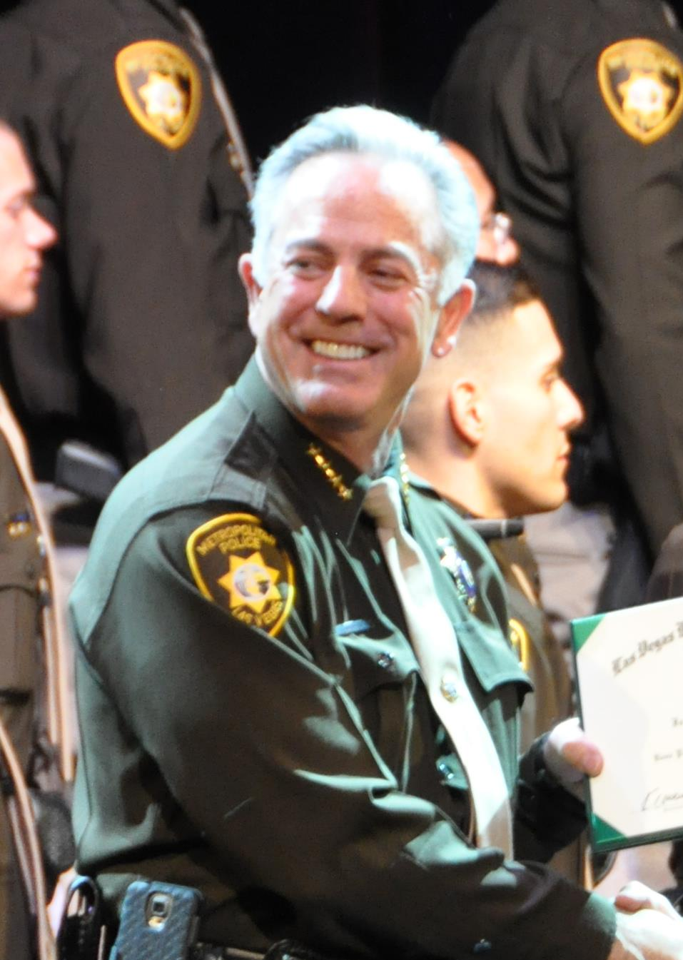 Sheriff Joseph Lombardo, during the Las Vegas Metropolitan Police Department's academy graduation ceremony June 14.